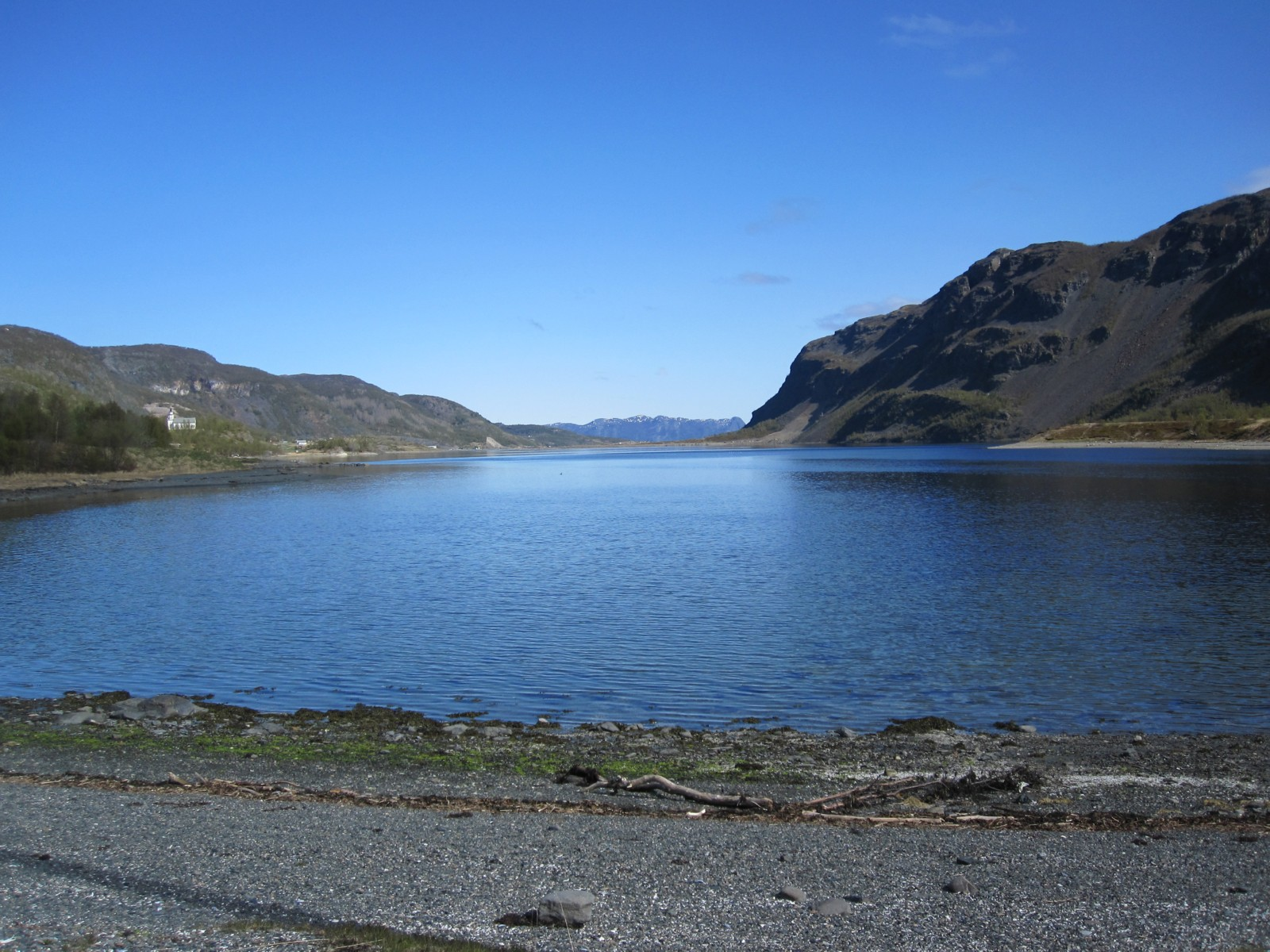 The Kåfjord near Alta (Norway); at left, at the edge of the woods, the church of Kåfjord village